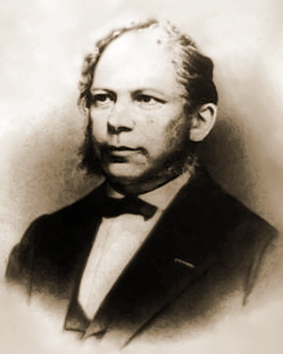 Konstantin von Tischendorf (1815–1874), German theologian, around 1870